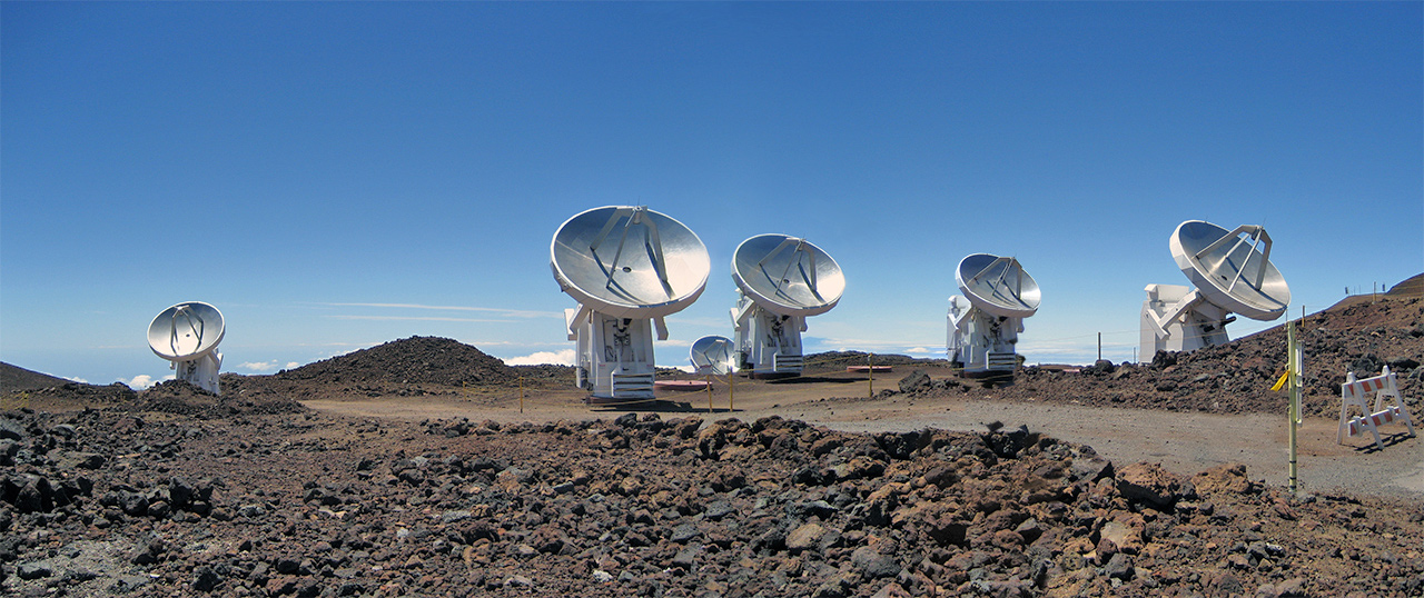 The Submillimeter Array (SMA) located at Mauna Kea Observatory on Mauna Kea, Hawaii